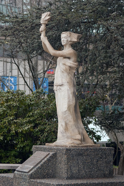 Photo of Goddess of Democracy statue at the Vancouver campus of the University of British Columbia.